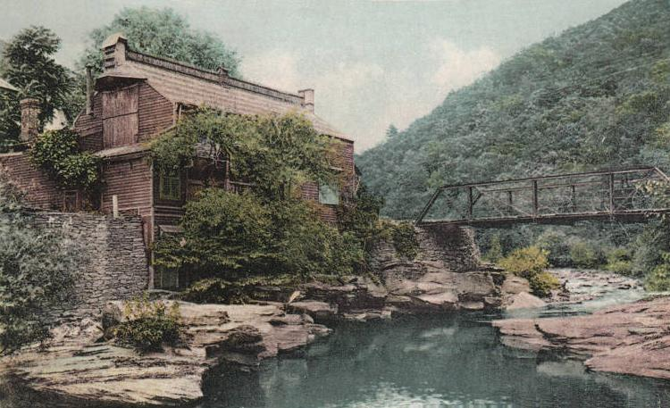 Old studio of Artist Hall, Palenville, Catskill Mountains, New York.